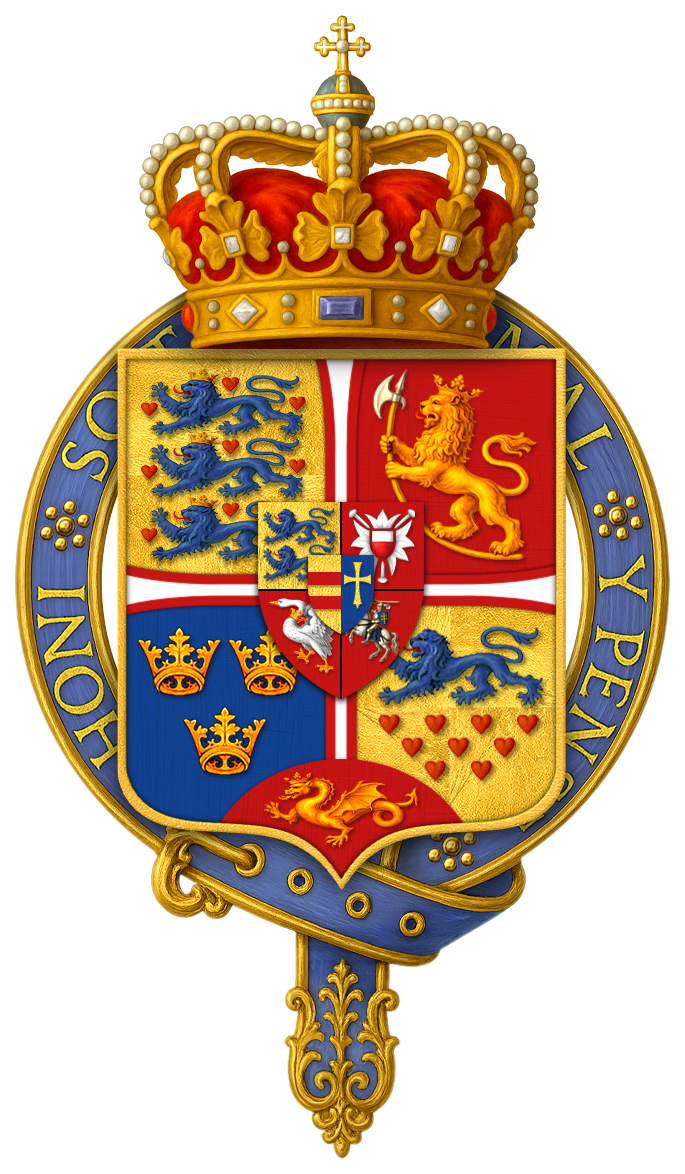 Coat of arms of Christian IV, King of Denmark and Norway, KG